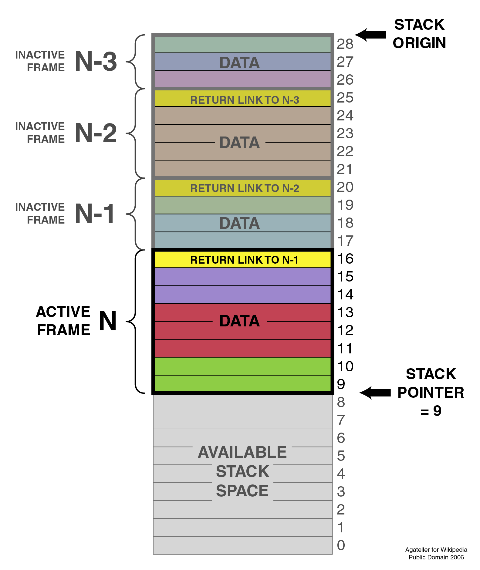 A simple diagram of the stack structure used to store information in memory by many computer architectures and programming languages. This is image two of two; the only difference between them is in the number of frames shown on the stack. File:ProgramCallStack1.png (image one of two)